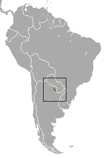 Chacoan Pygmy Opossum (Chacodelphys formosa) range Only 1 dead specimen was known until 2004 IUCN: Chacodelphys formosa (Shamel, 1930) (old web site) (Vulnerable)